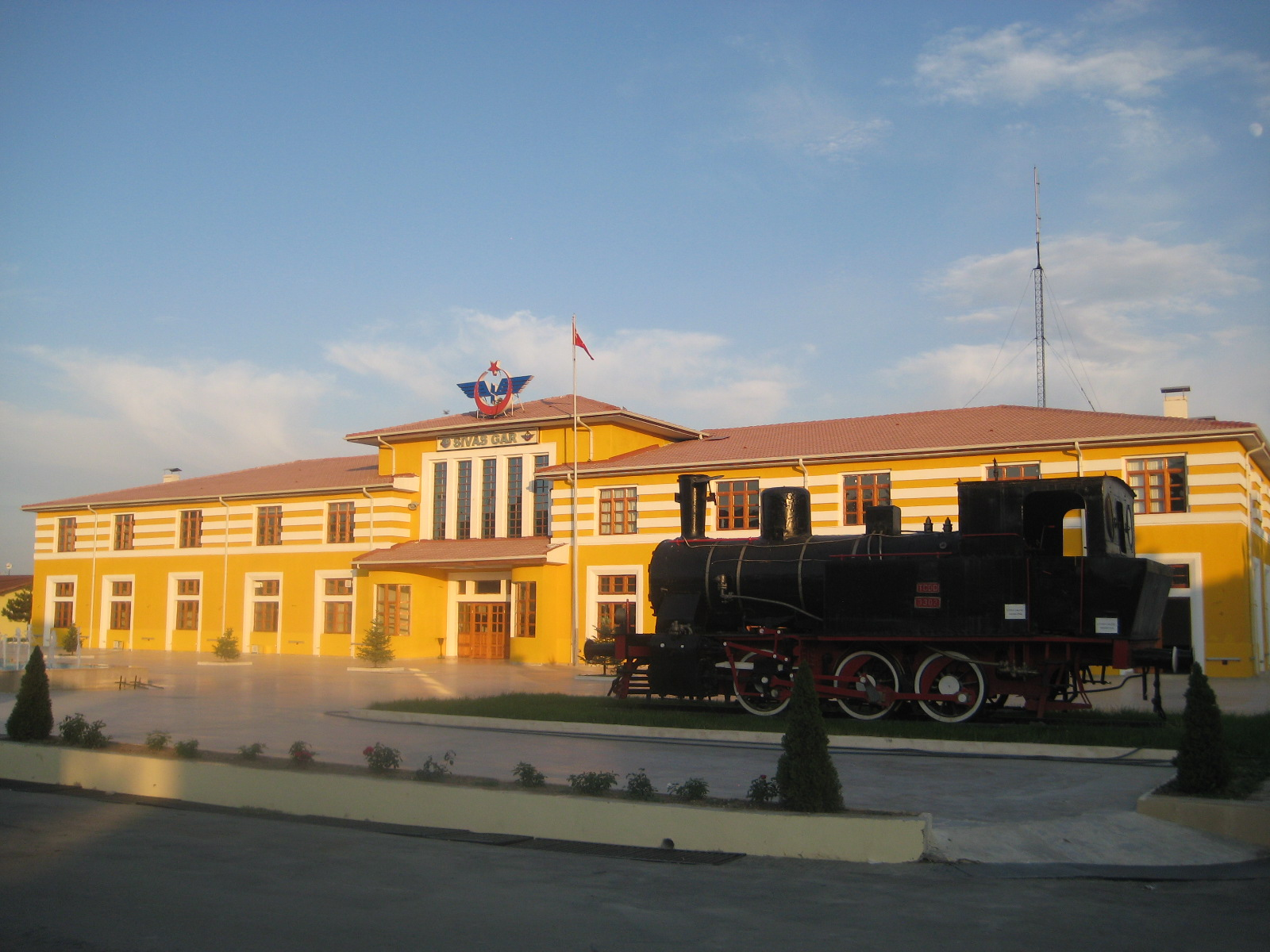 Sivas Train Station.